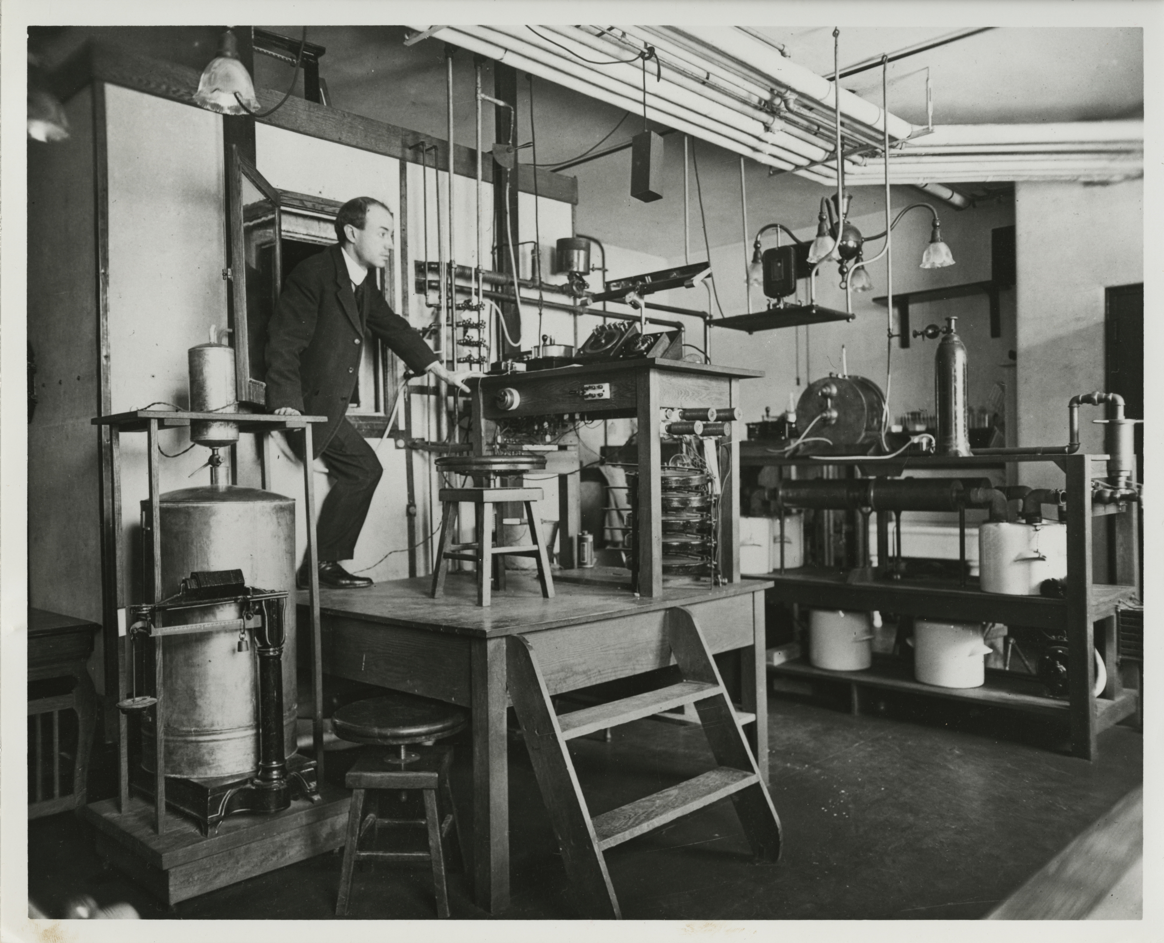 Subject emerging from large respiration calorimeter from the Wilbur Olin Atwater Papers, Special Collections, USDA National Agricultural Library